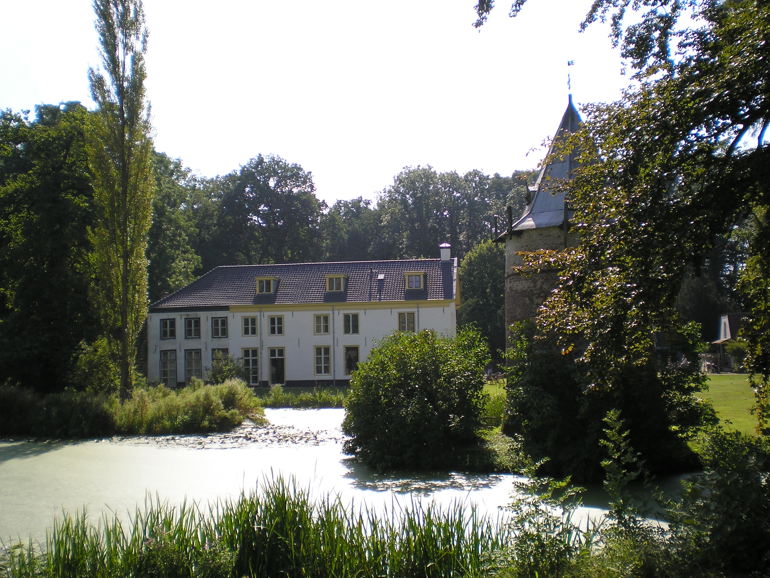 Wickenburgh Castle in 't Goy in the Netherlands